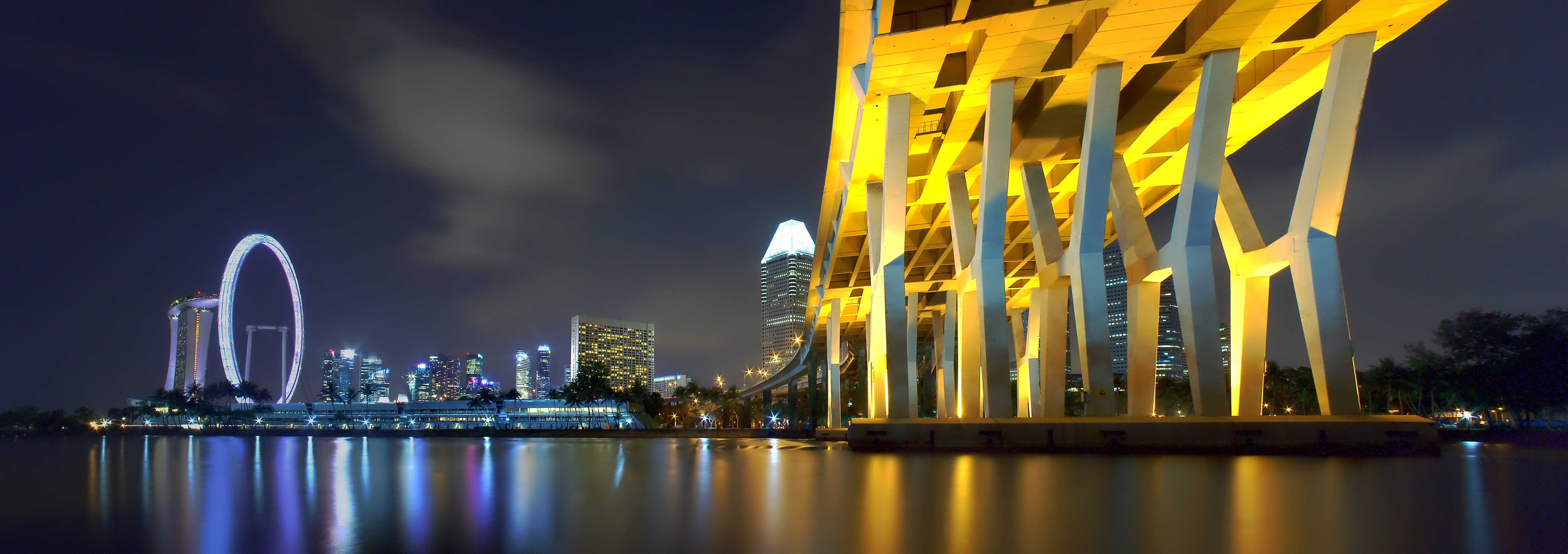 Pano 3 frame, 3 exposures. From a discarded set of brackets done last year while still learning photography. Never processed these until today.